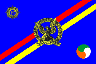 Air force flag of Ireland.